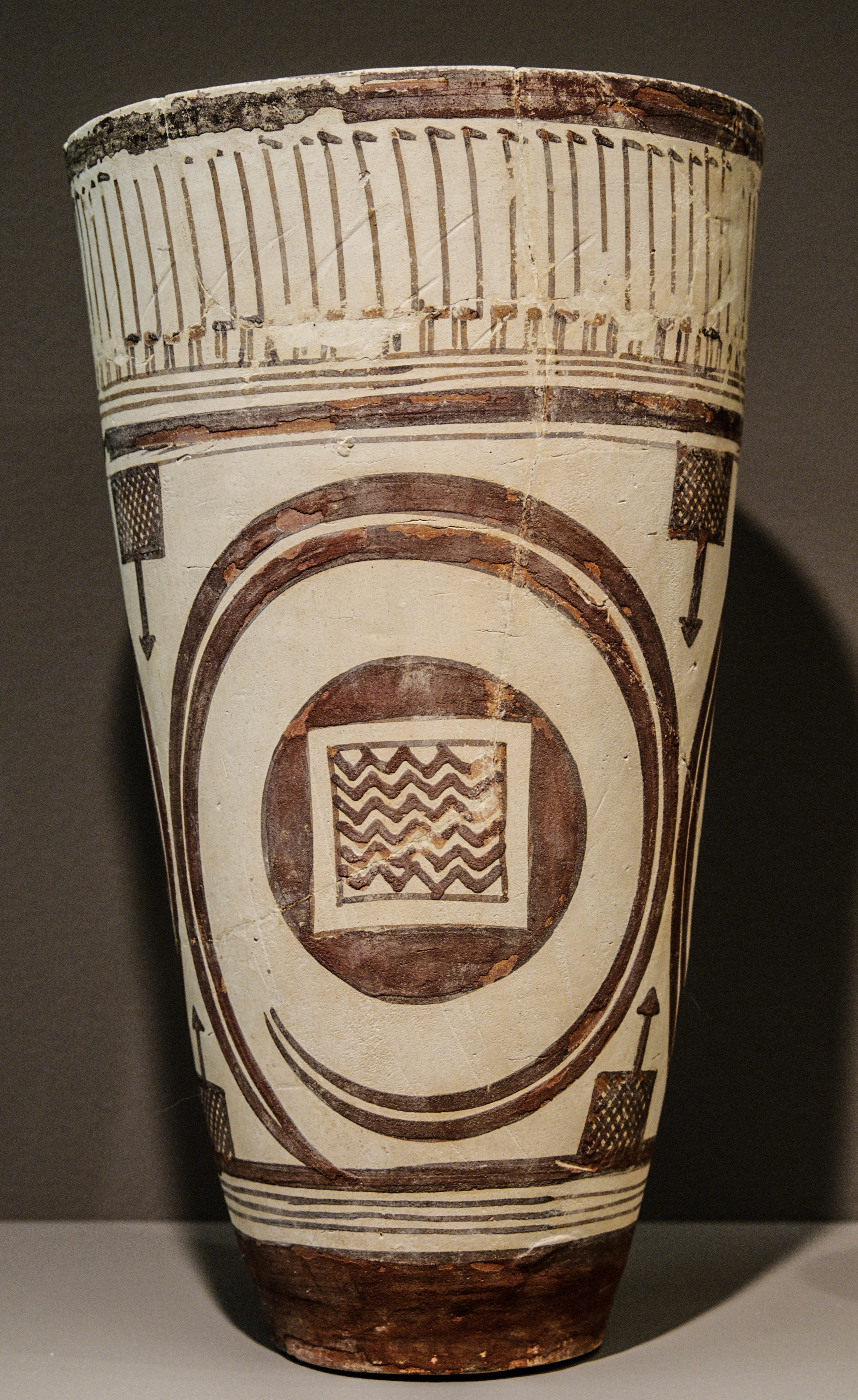 Ceramic cup with a frieze of aquatic birds around the top and panels with ibex, divided by meander patterns, around the main part of the vase. Susa I period, from the necropolis of the Acropolis mound, Susa, Iran.